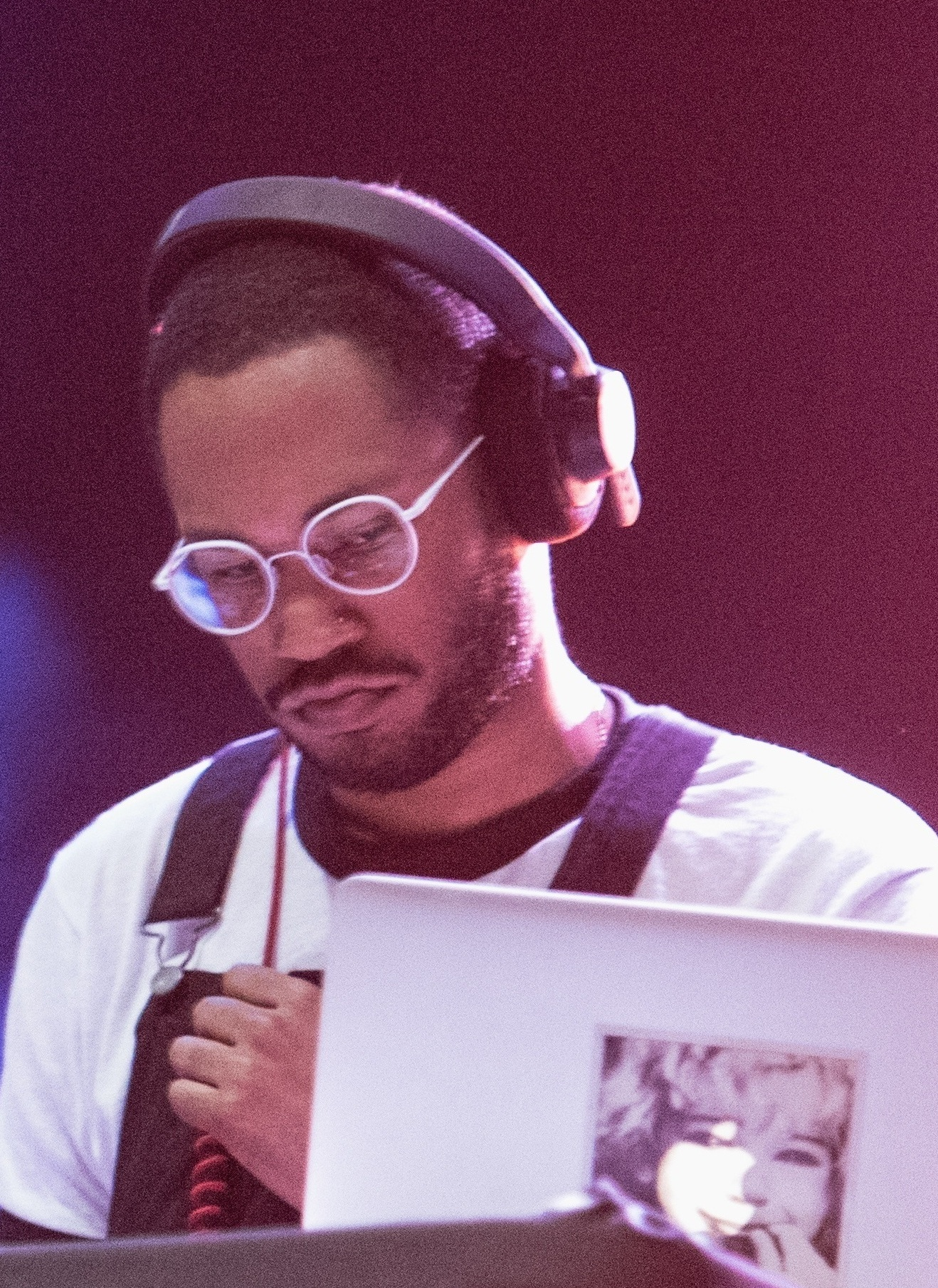 Kaytranada in 2016 September